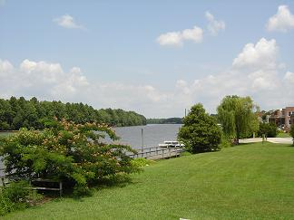 Photo by Kevin Mills